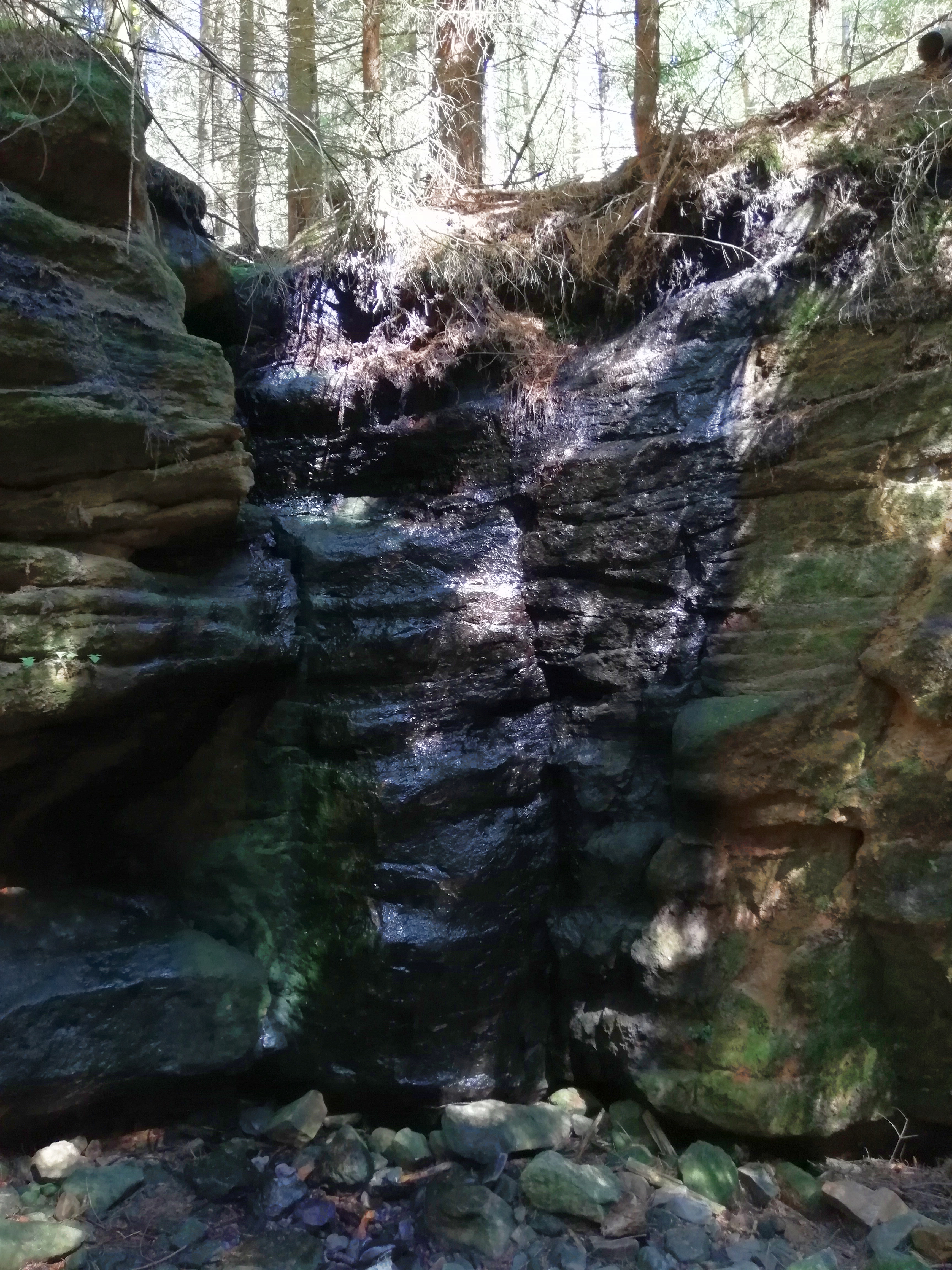 Velký (Big) Bělský waterfall (4 meters high) in the cadastre of the small village Kytlice in the district of Děčín in the Ústí nad Labem region, Czech Republic. The waterfall is best seen during the spring thaw, when there is plenty of water in nature, or during the freezing weather in the winter, when icefalls are created in the locality.